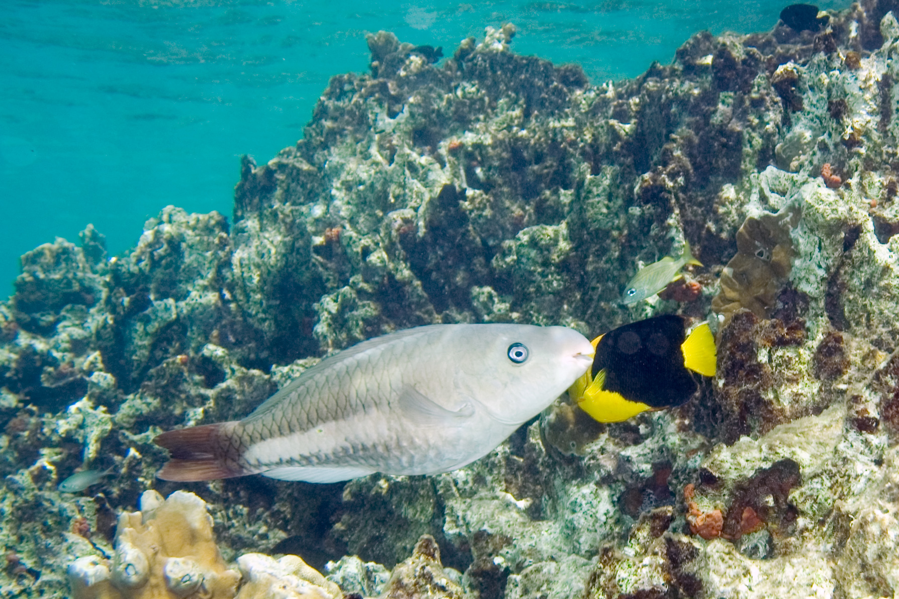 in front of rock beauty Holacanthus tricolor